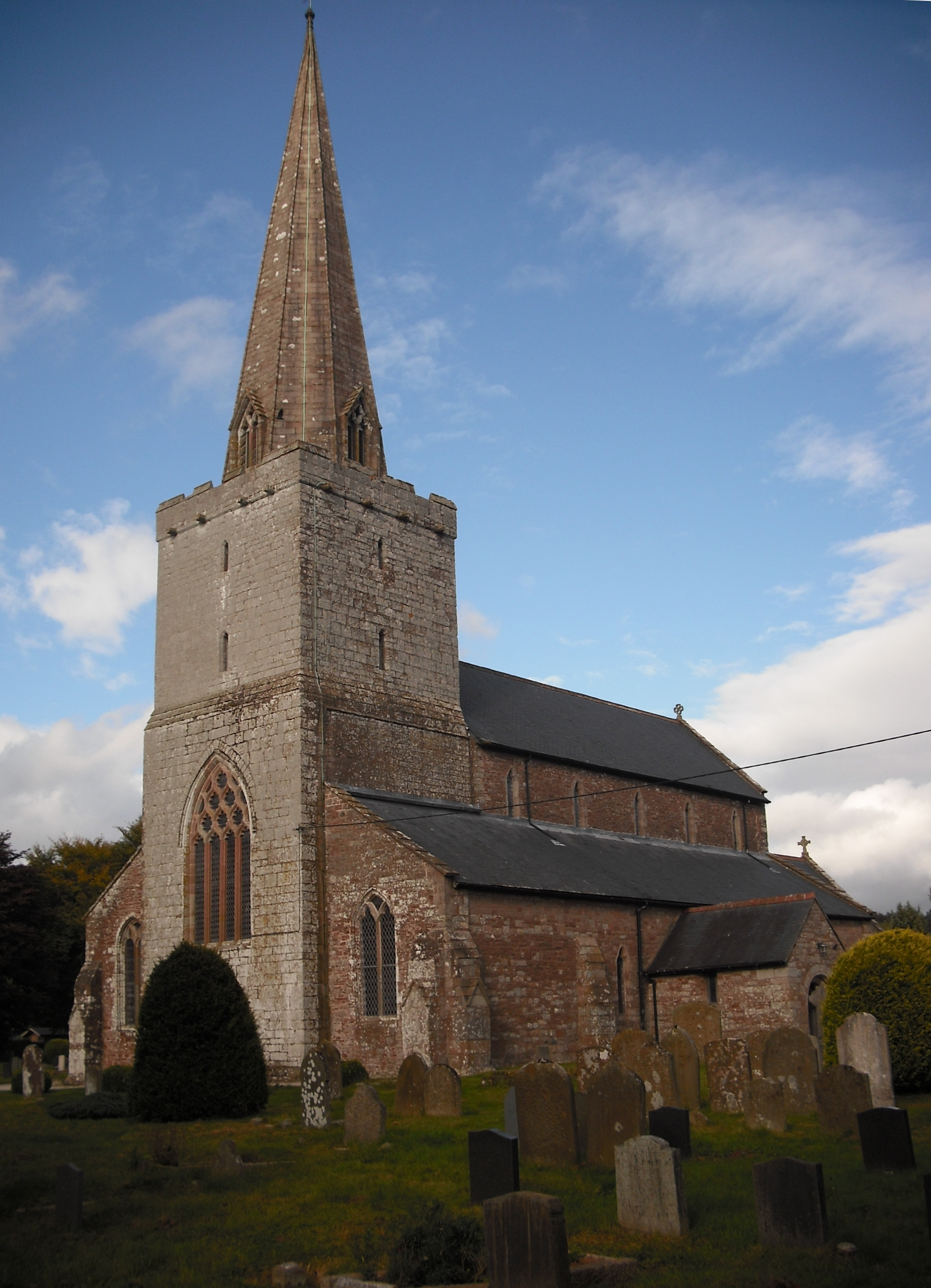 Church of St Nicholas, Trellech - front